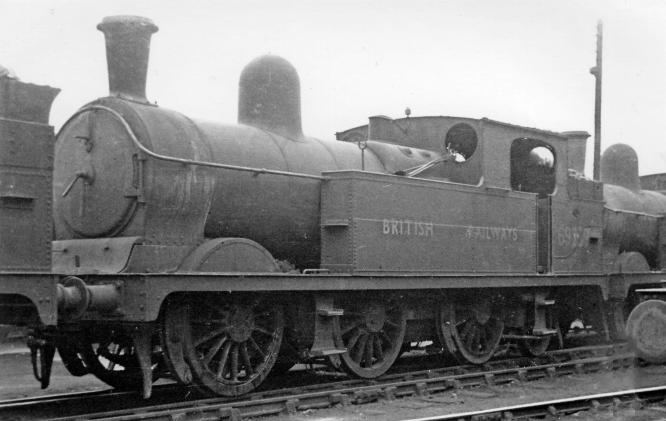 Ex-GC class 9A (LNER N4) 0-6-2T at Barnsley Locomotive Depot. BR No. 69239 was a survivor of 55 shunting engines: built 5/1891 as No. 635, LNER No. 5635 until 1946 then 9239, withdrawn 3/54.